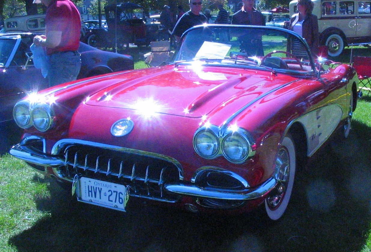 1960 Chevrolet Corvette photographed in Salaberry-De-Valleyfield, Quebec, Canada at Auto antique Salaberry-De-Valleyfield 2011.